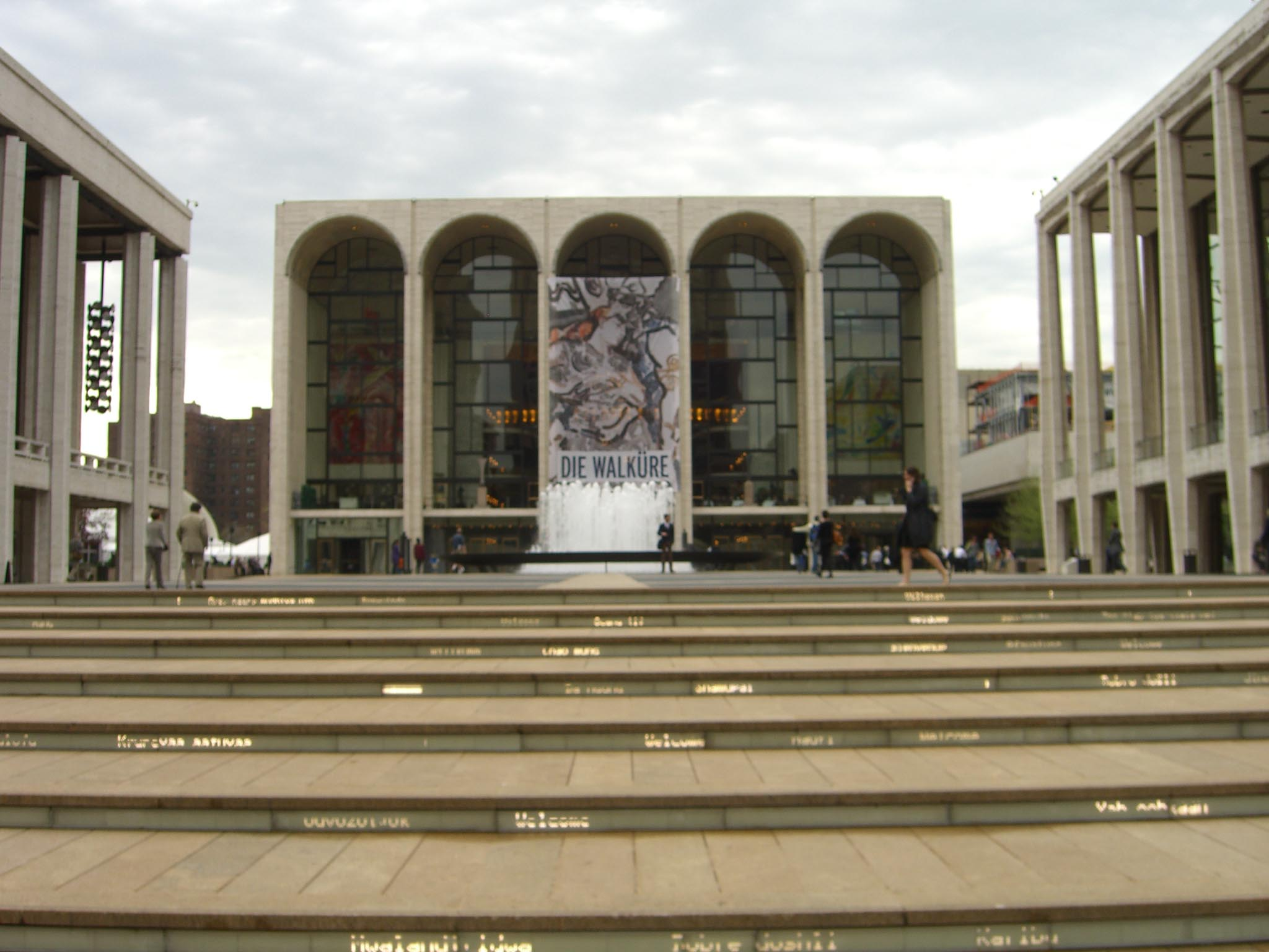 The Metropolitan Opera House at Lincoln Center in Manhattan, photographed April 28, 2011, during the run of a show Richard Wagner's Die Walküre. Photographed by Luigi Novi. This photo is not in the public domain. It may, however, be used, modified and published for any purpose, free of charge, only if the photographer is properly credited, either by linking the photograph to this page, or with an easily visible credit to the photographer placed near the photo in each instance in which it is used. (See licensing information below.) Publication of this photo without this proper attribution constitutes copyright infringement. If you have any questions, you can contact me on my Wikipedia Talk Page.